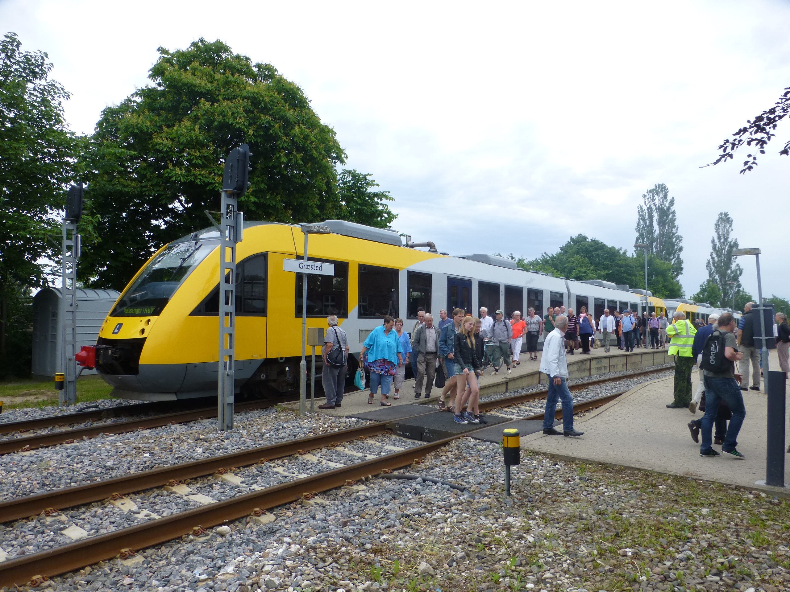 Lint 41 for Helsingør at Græsted Station on Gribskovbanen between Hillerød and Gilleleje in Denmark.